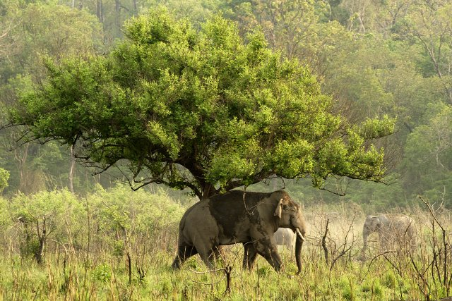 Asian Elephant at Corbett National Park